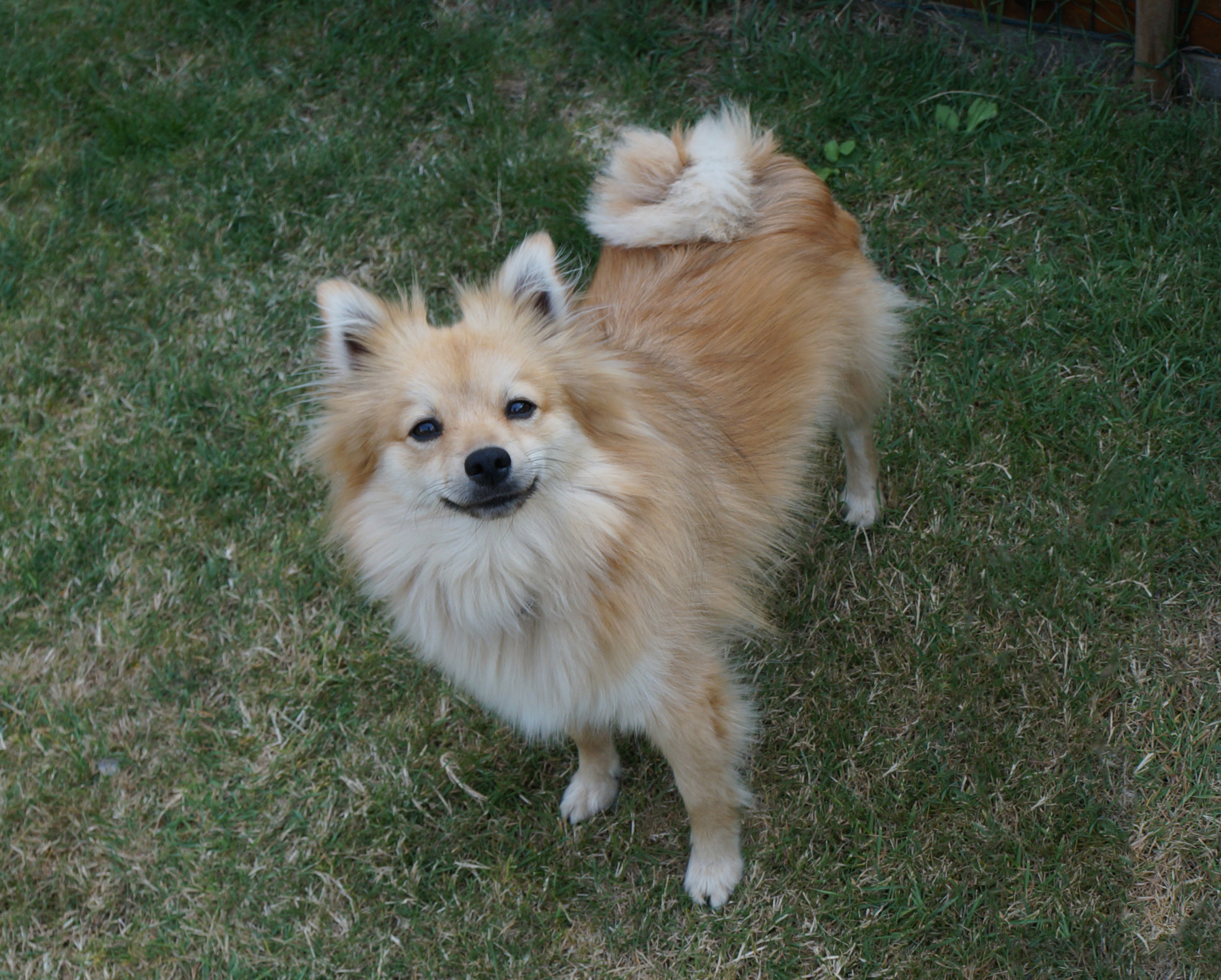 German spitz (Mittel)